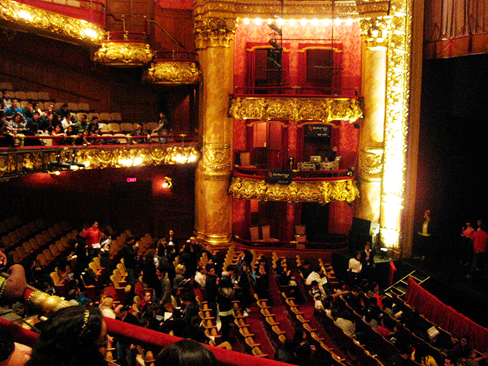 At the Boston Colonial Theatre for the Elements X Dance Competition!